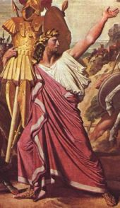 Detail from Romulus, der Sieger von Acron, trägt die reiche Beute in den Zeustempel, from the Wikimedia Commons